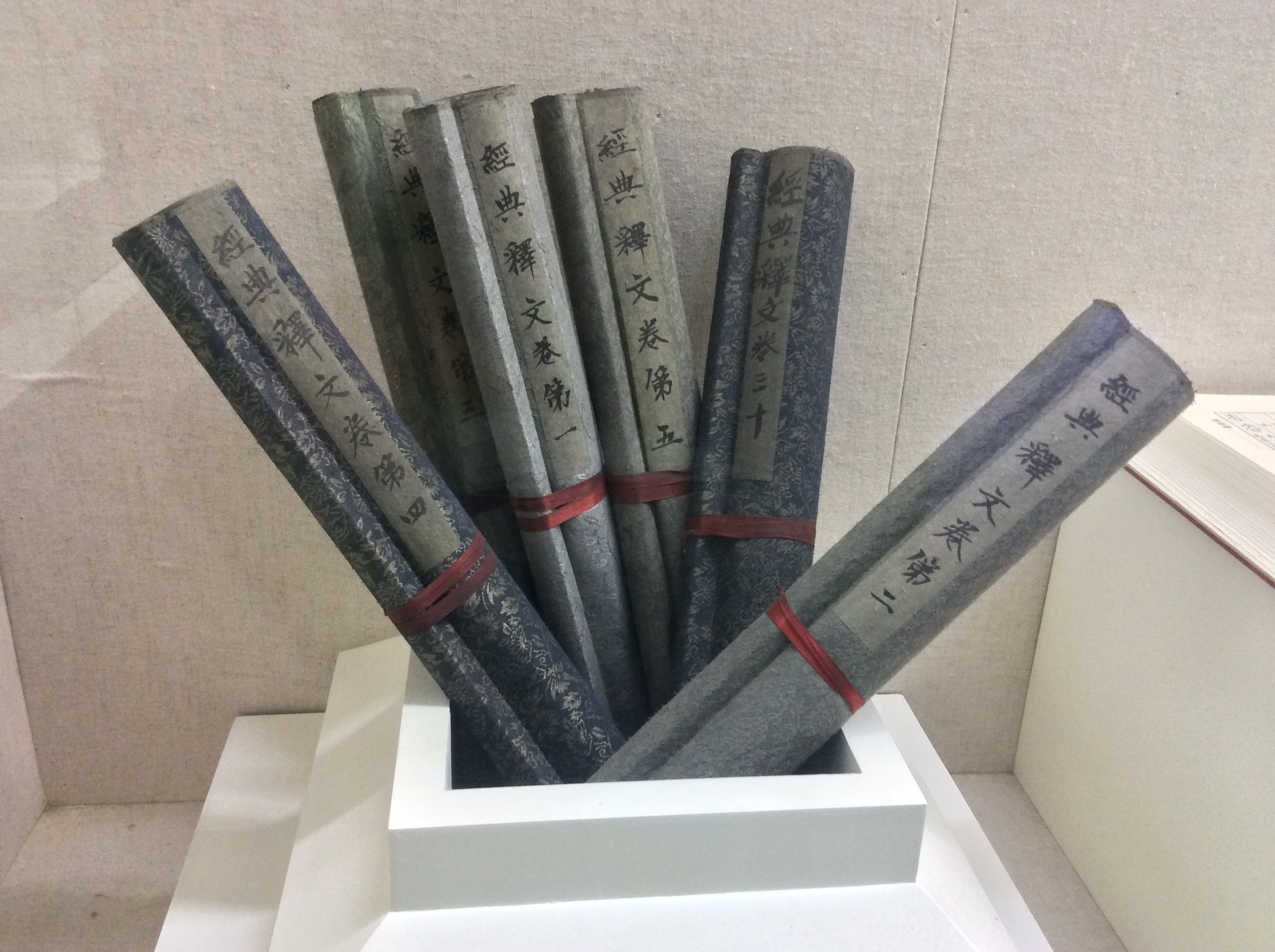 Jingdian Shiwen (經典釋文) exhibit in the Chinese Dictionary Museum, on the grounds of Huangcheng Xiangfu